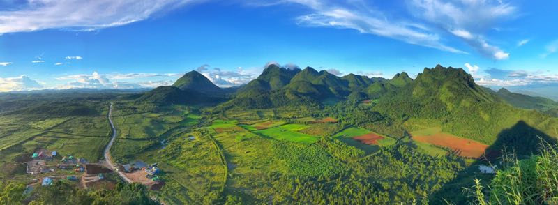 view of Loi Sam Sip mountain and weald, Kutkai, Shan State (Northern)